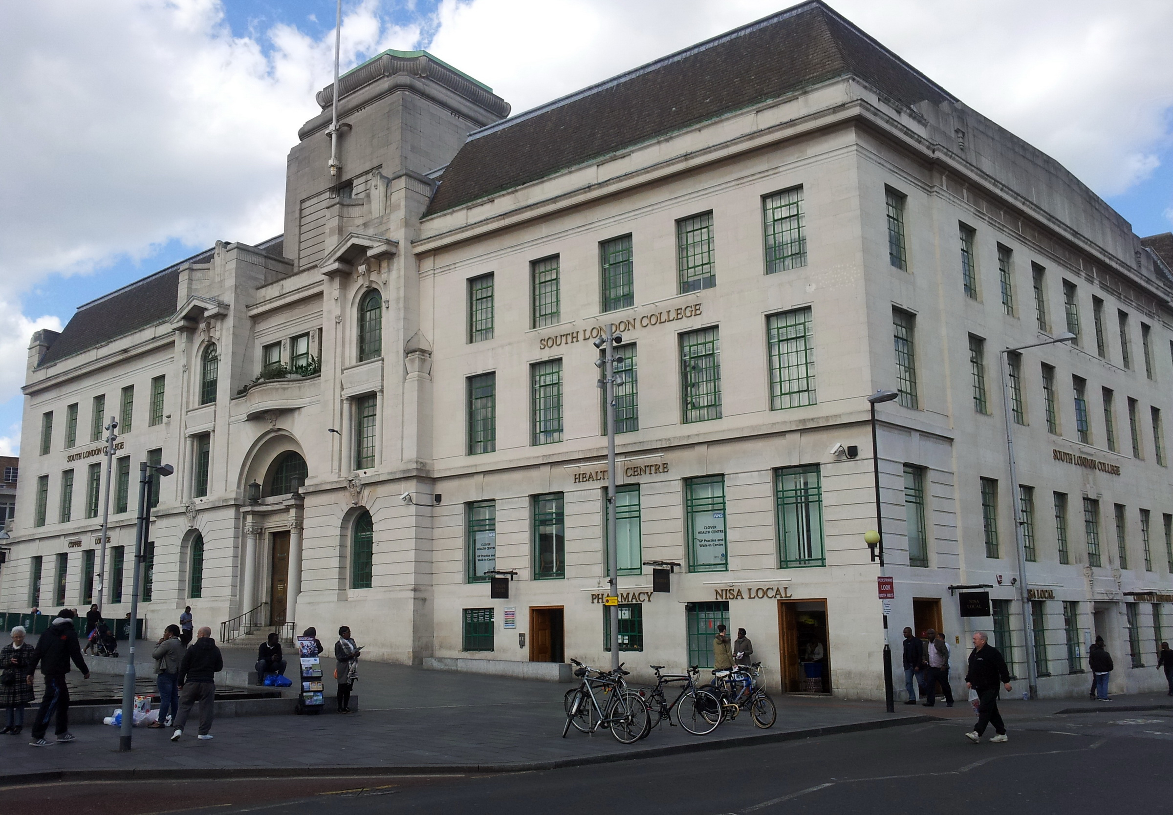 View from the south of the Woolwich Equity building on the corner of General Gordon Square and Woolwich New Road in the centre of Woolwich, South East London.